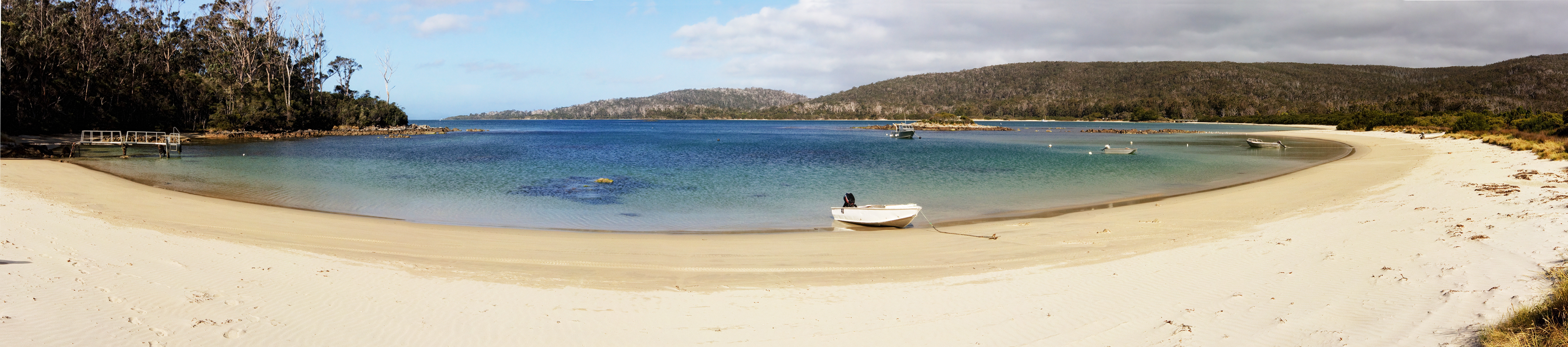 Cockle Creek Beach, Tasmania, Australia